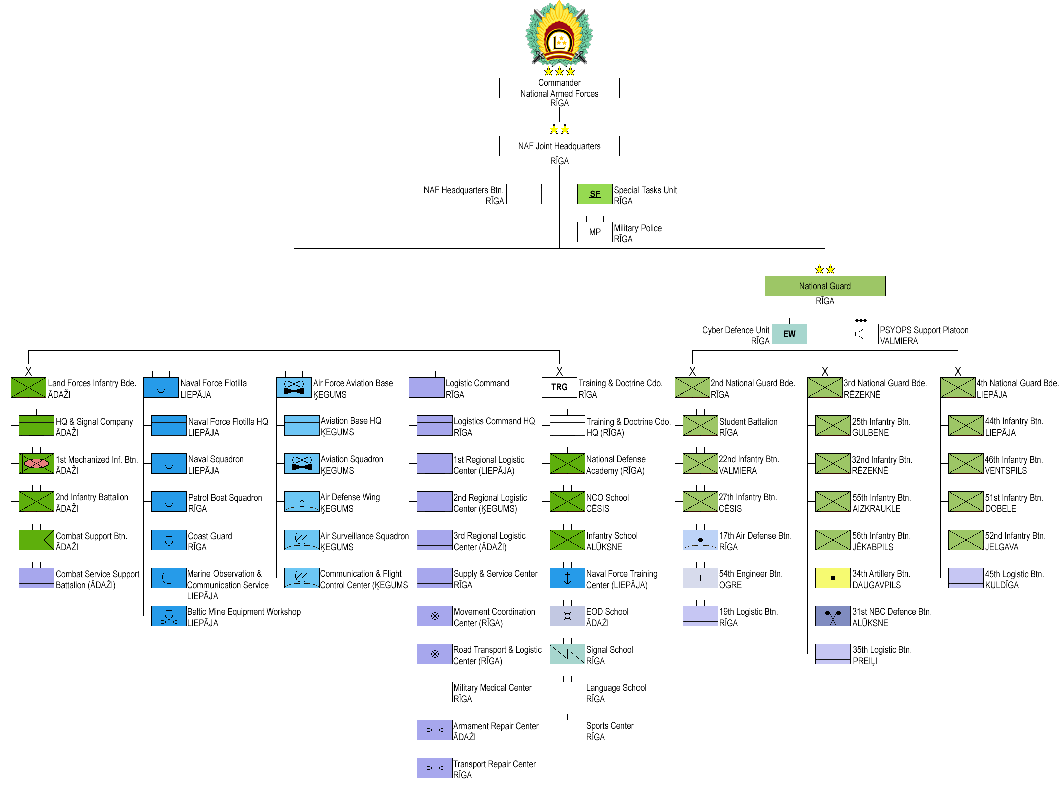 Structure of the National Armed Forces of Latvia 2017